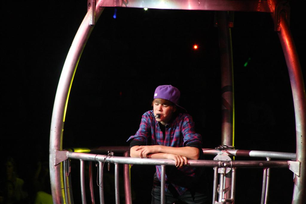 Justin Bieber performing at the Conseco Fieldhouse